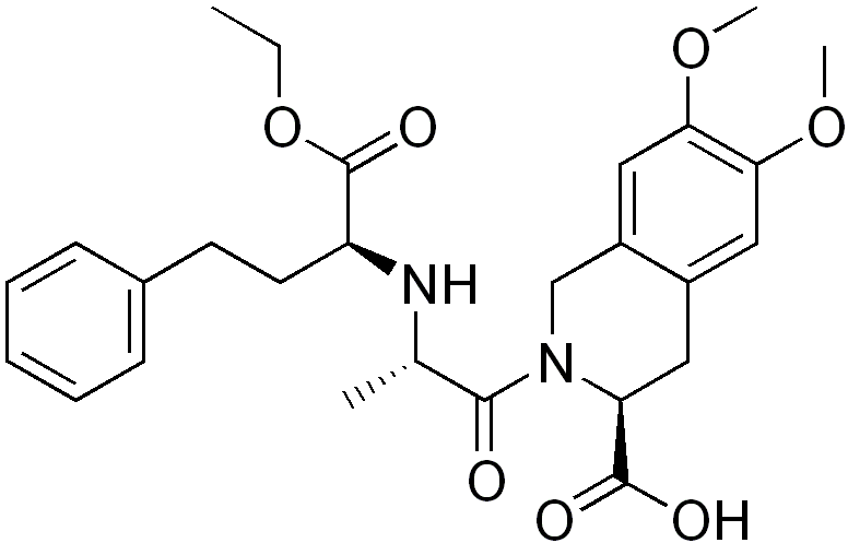 chemical structure of moexipril